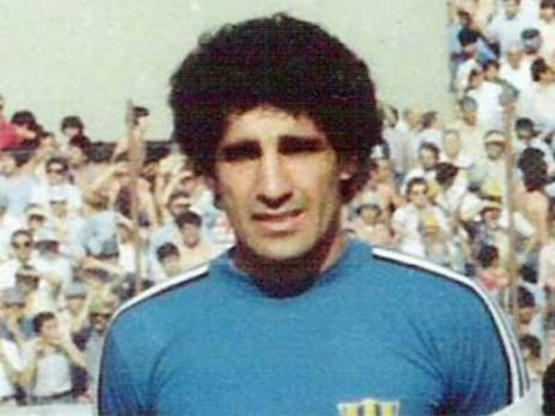 Daniel Carnevali while playing for Rosario Central (1979-1983)